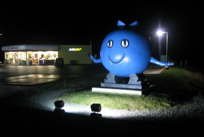 The giant blueberry makes a distinctive entry feature for the community Self made photo. Straightened and sharpened.